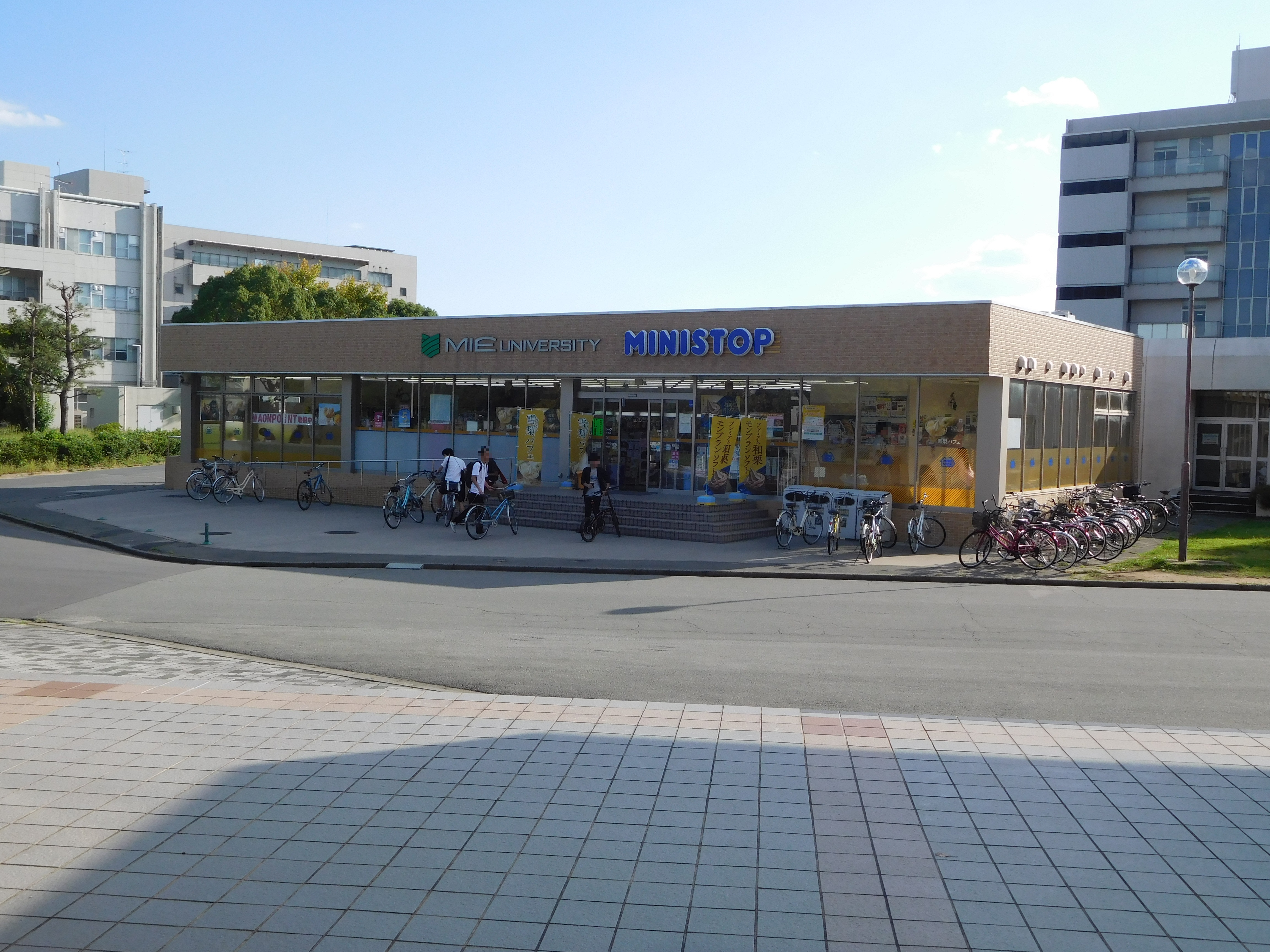 This is Ministop Mie University Shop, a convenience store in Mie University, Tsu, Mie, Japan.